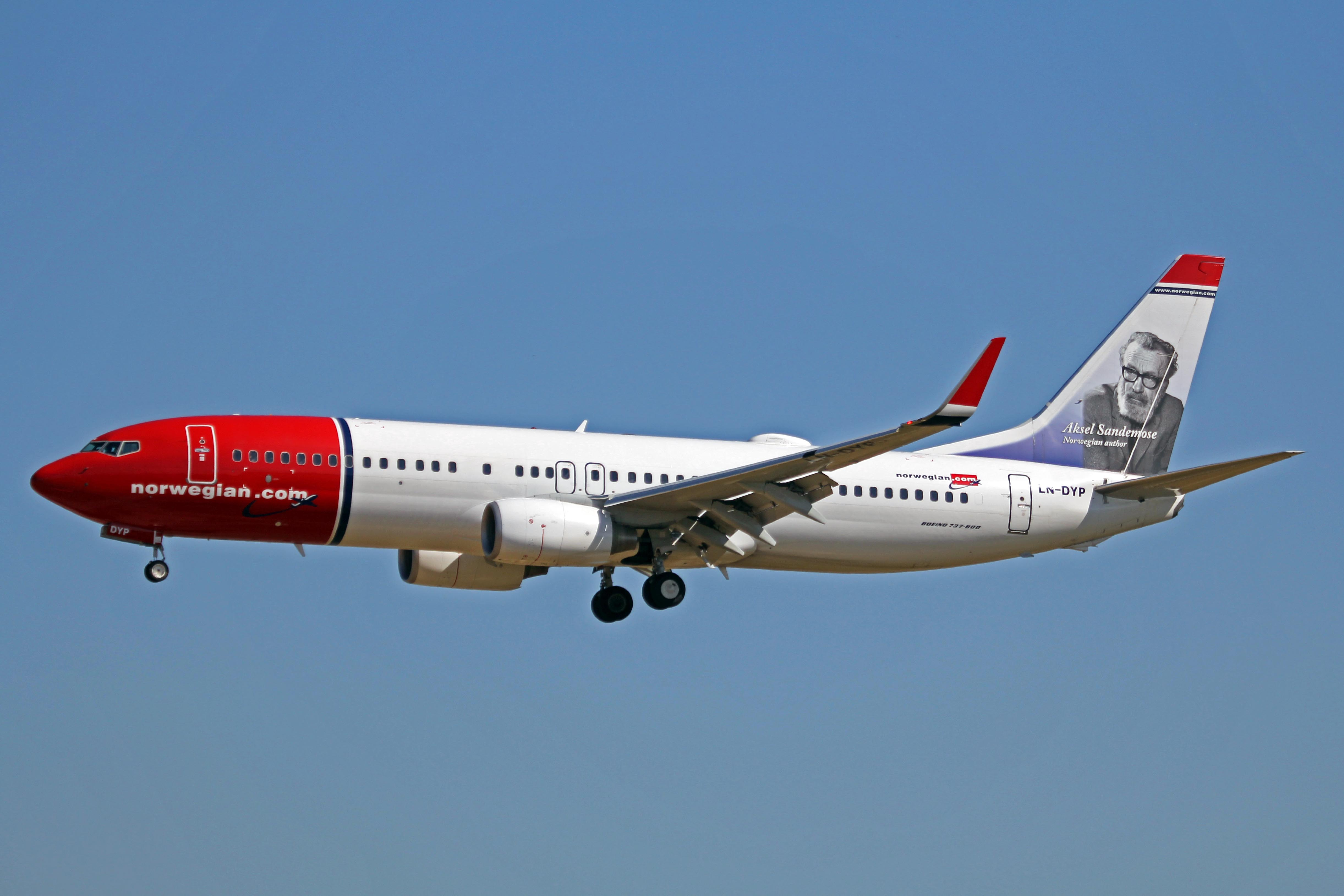 'Aksel Sandemose - Norwegian author' tail c/scheme.